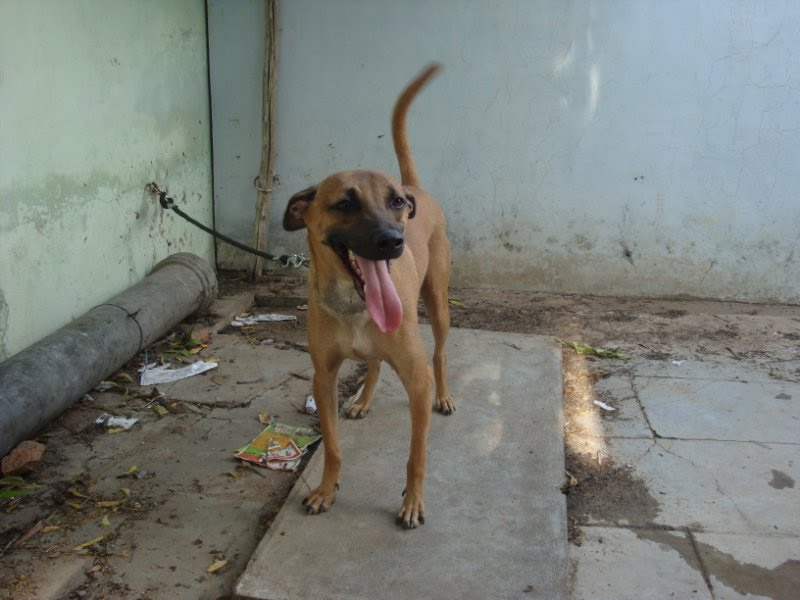 Male Kombai